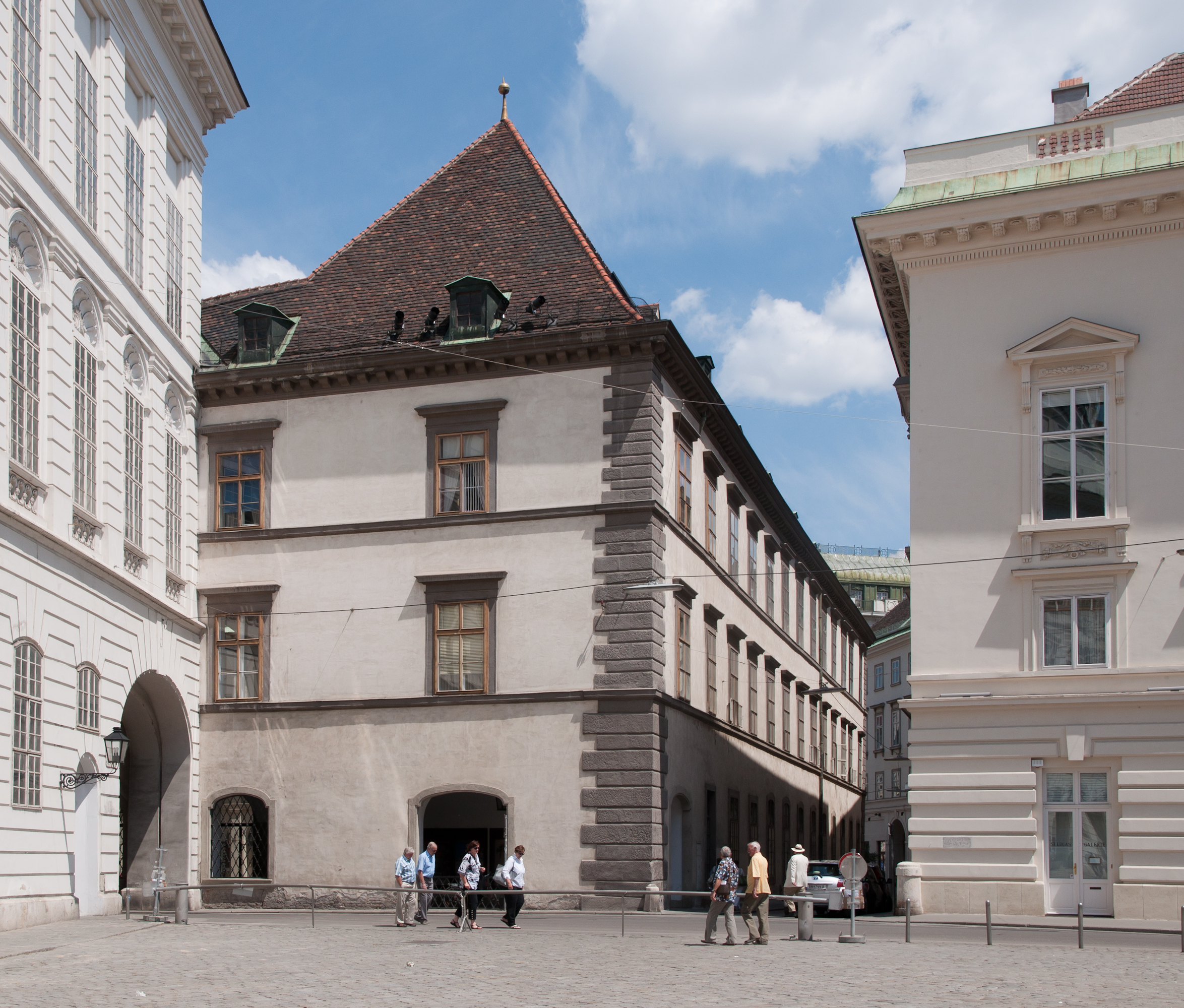 The south wing of Stallburg, Vienna seen from Josefsplatz.